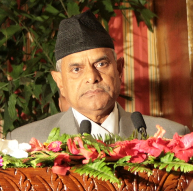 Dr. Ram Baran Yadav, the President of Nepal, speaking at Hem Bahadur Malla Honor ceremony 2008.